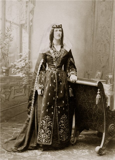 English scholar and translator of Georgian literature Marjory Wardrope dressed in georgian national costume